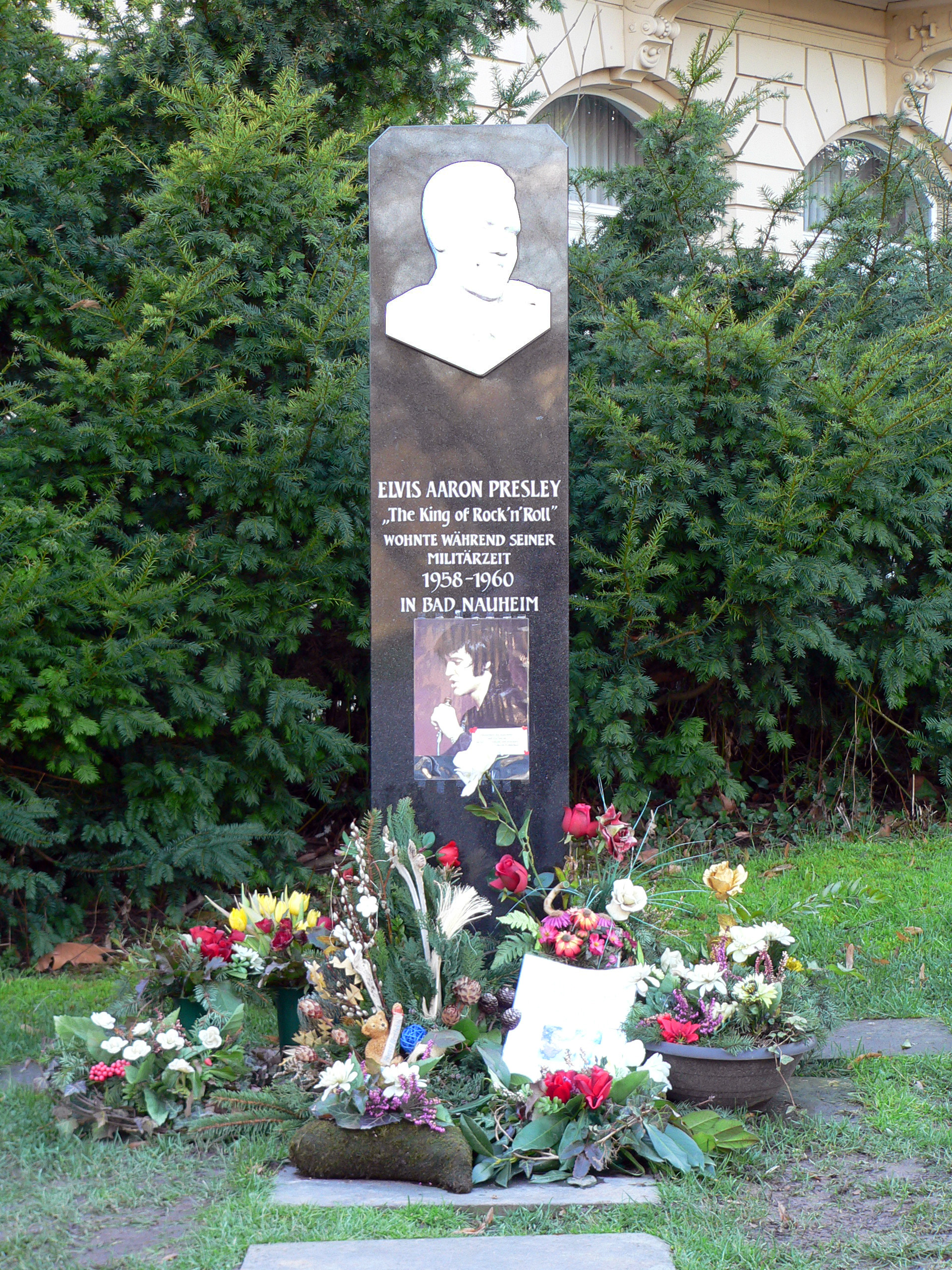 Monument for Elvis Presley in Bad Nauheim, Germany